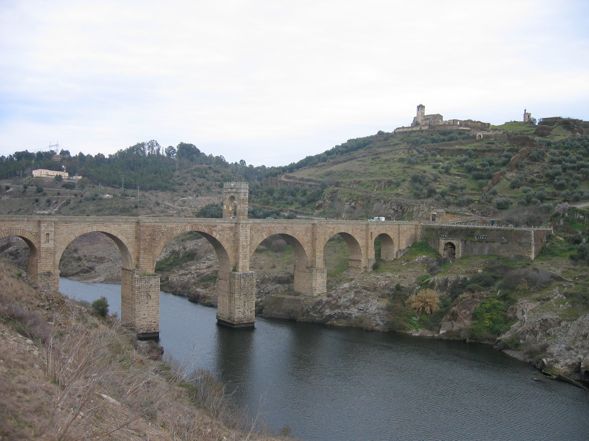 Roman Bridge of Alcántara